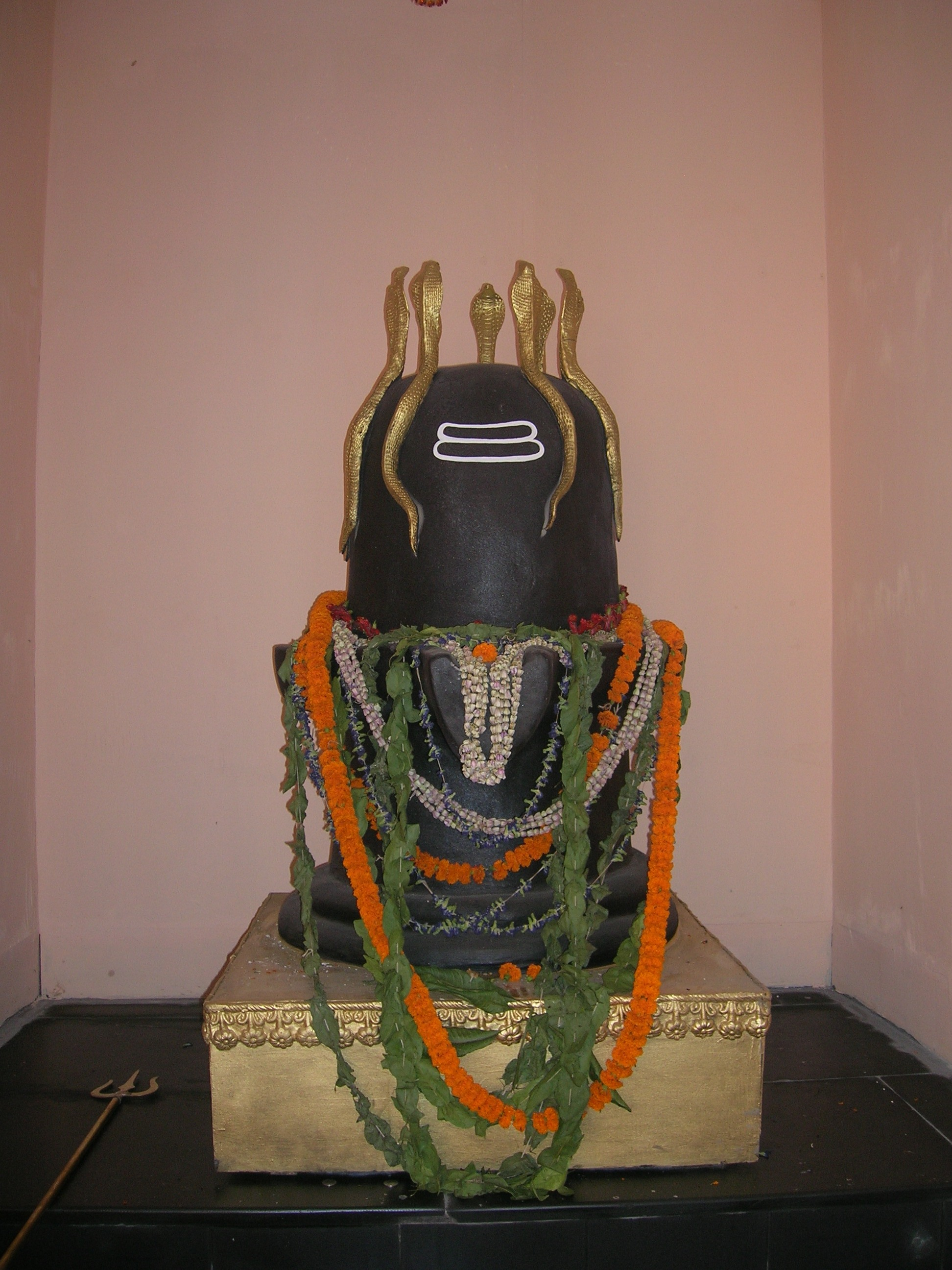 Shiva Linga at Behala Nutan Dal, Kolkata, 2010.